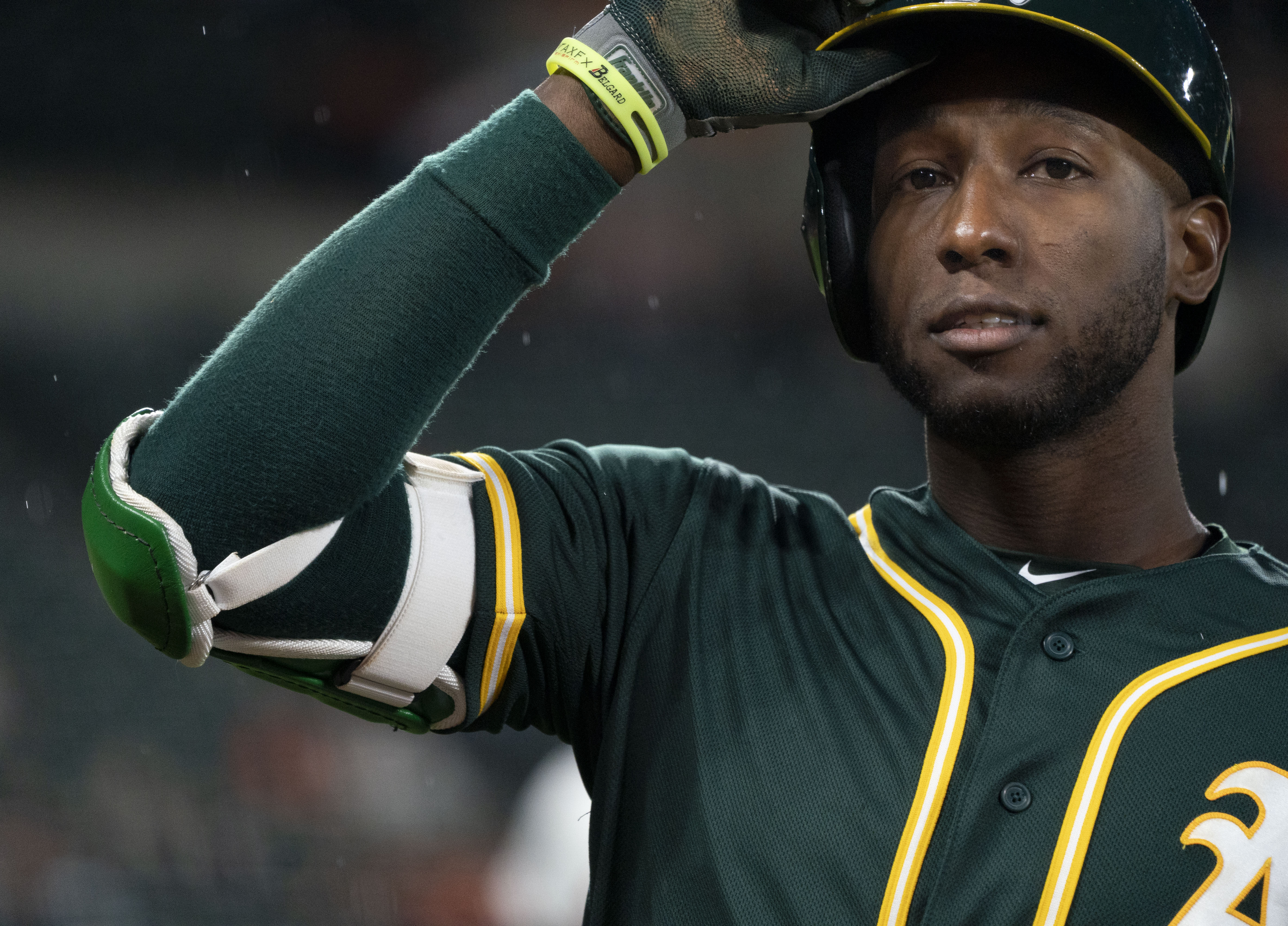 Jurickson Profar of the Oakland Athletics during a 2019 game at Camden Yards in Baltimore